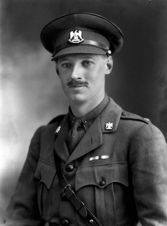 by Bassano, whole-plate glass negative, 26 April 1919